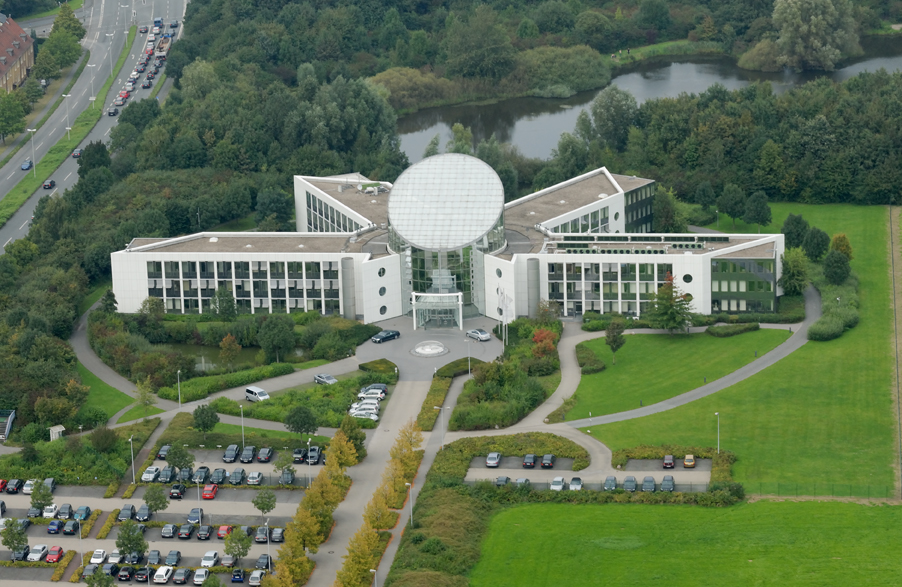 Picture of former GEA Center Bochum from above